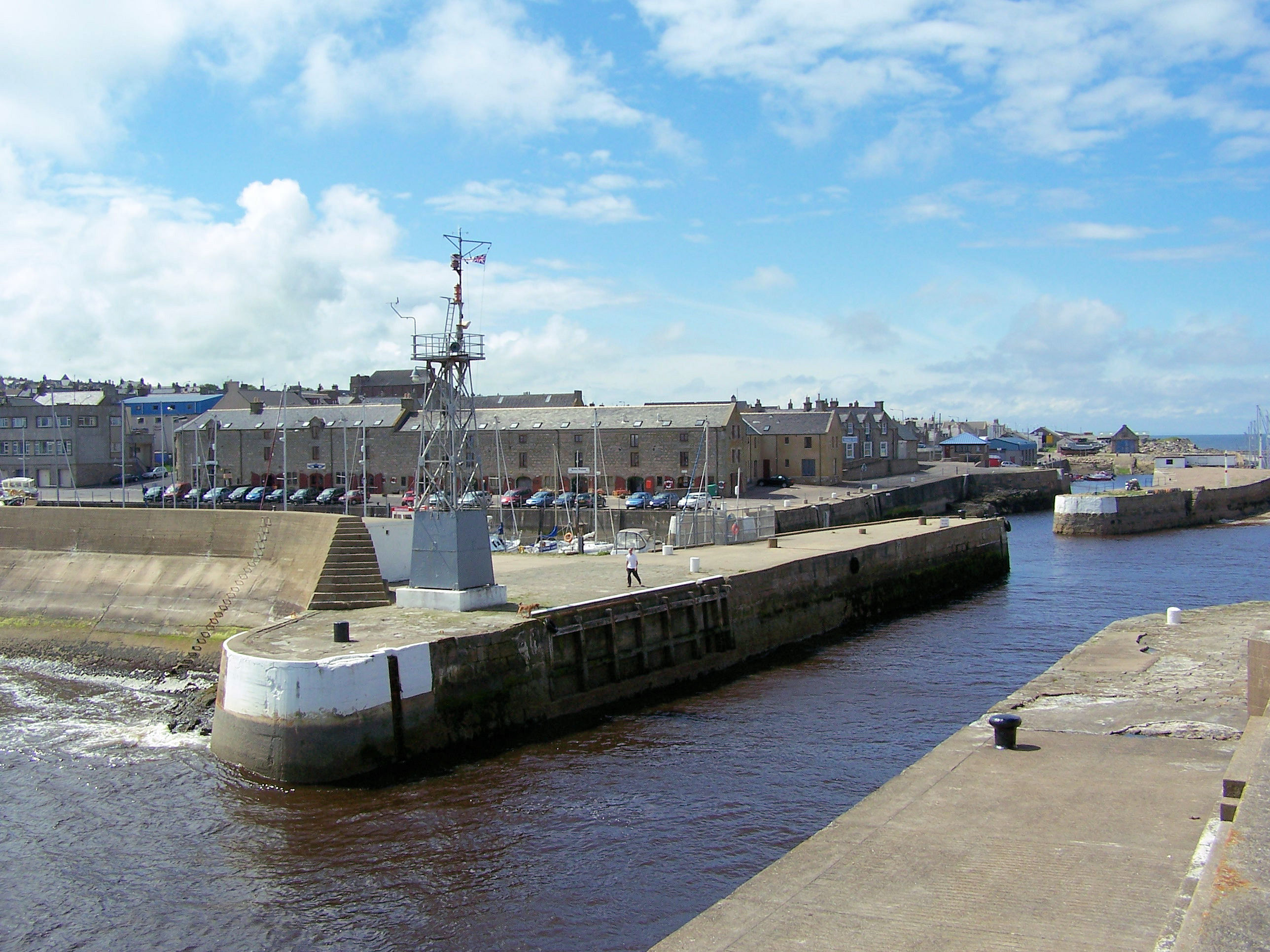 Harbour at Lossiemouth, Moray, Scotland